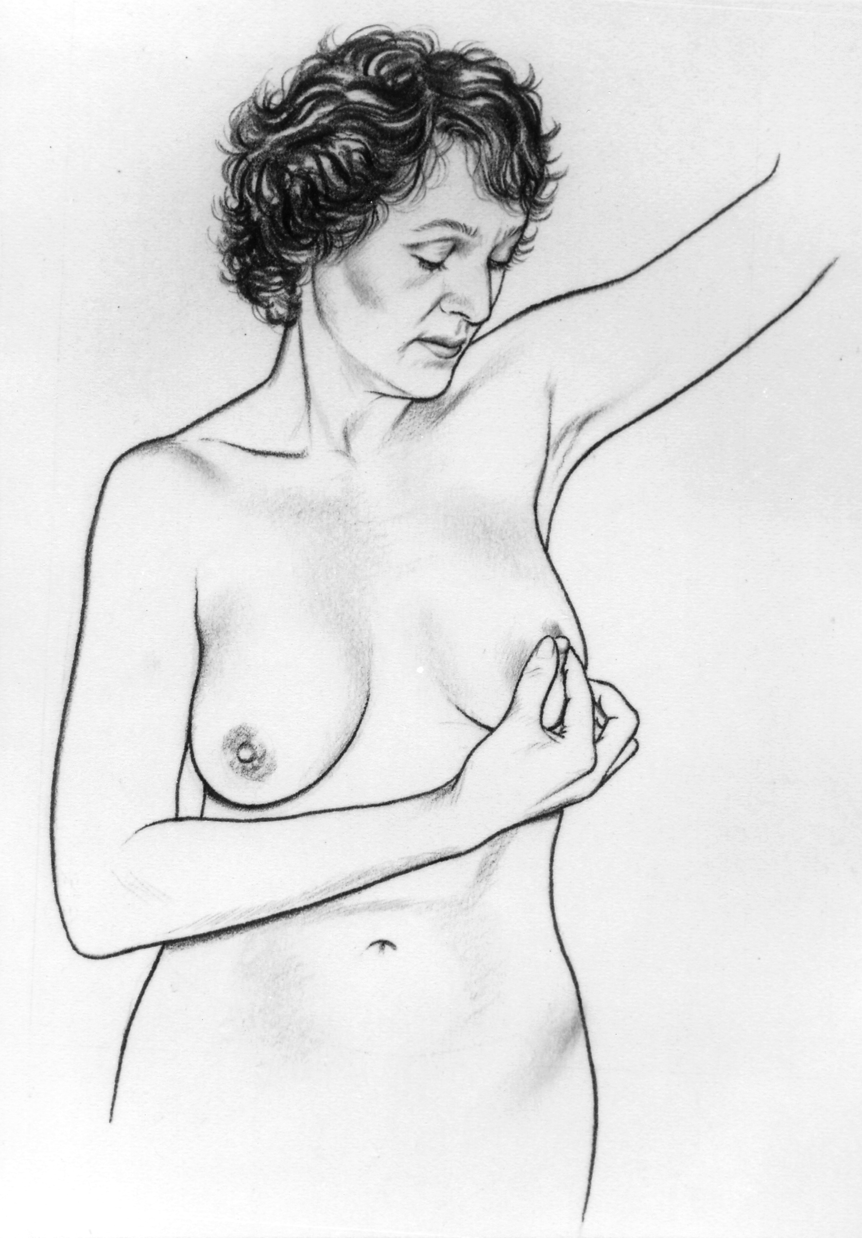 Title Breast Self-Exam Illustration (Series of 6) Description This is the fifth image in a series of six illustrations showing how to do breast self examination (BSE). Image shows a nude woman with right hand on her left breast pinching the nipple. See other images: Topics/Categories Cancer Types -- Breast Cancer Historical -- Graphics Test or Procedure -- Physical Exam Type B&W, Medical Illustration Source National Cancer Institute